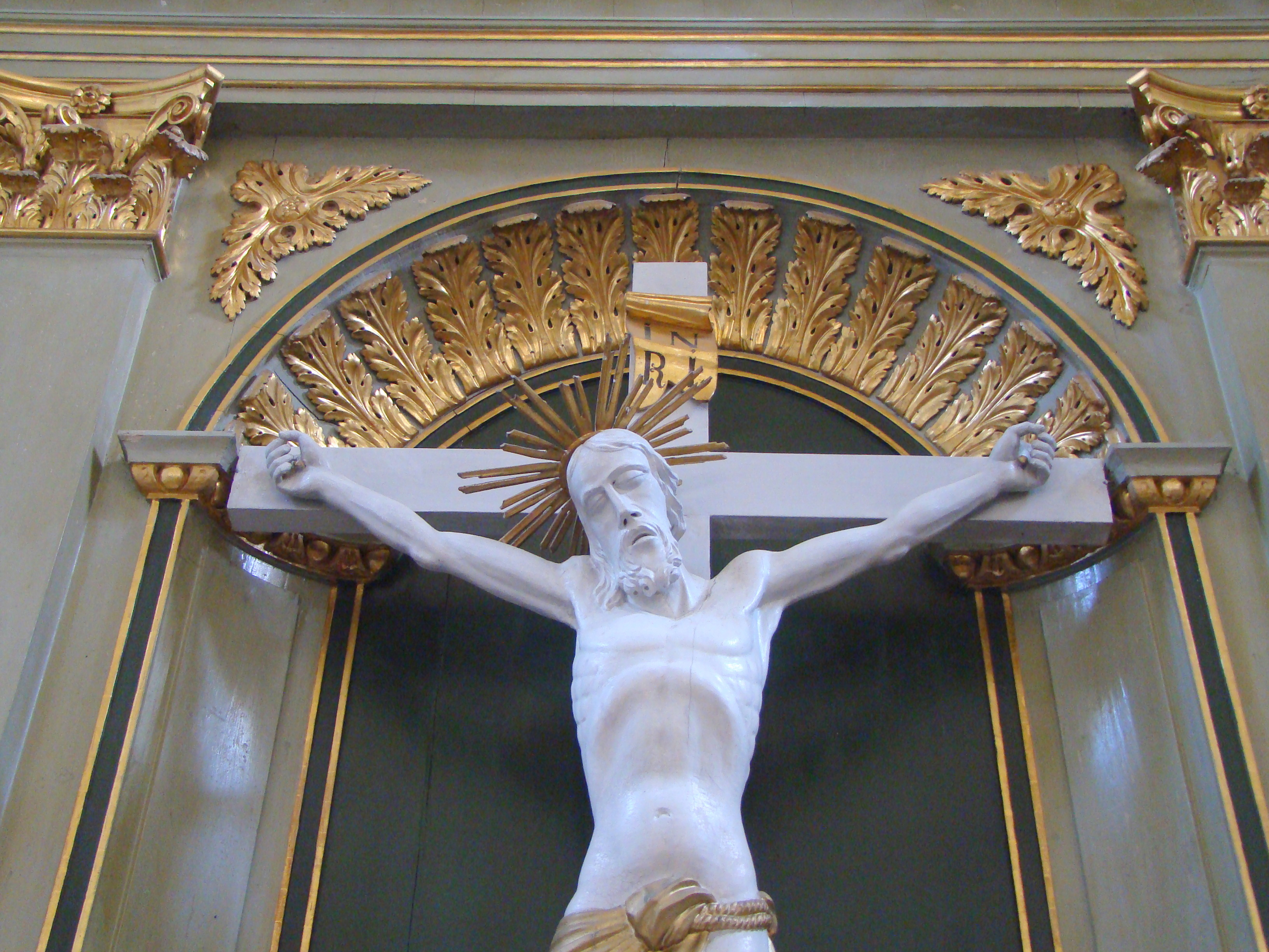 Fortified church in Criț, Brașov county, Romania